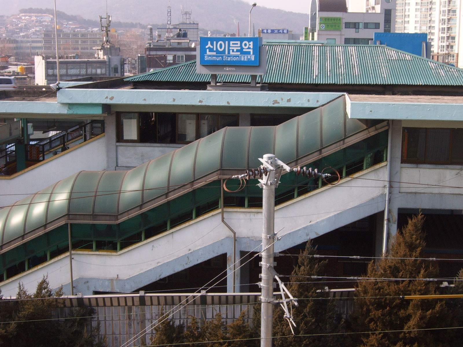 The north side of Sinimun Station